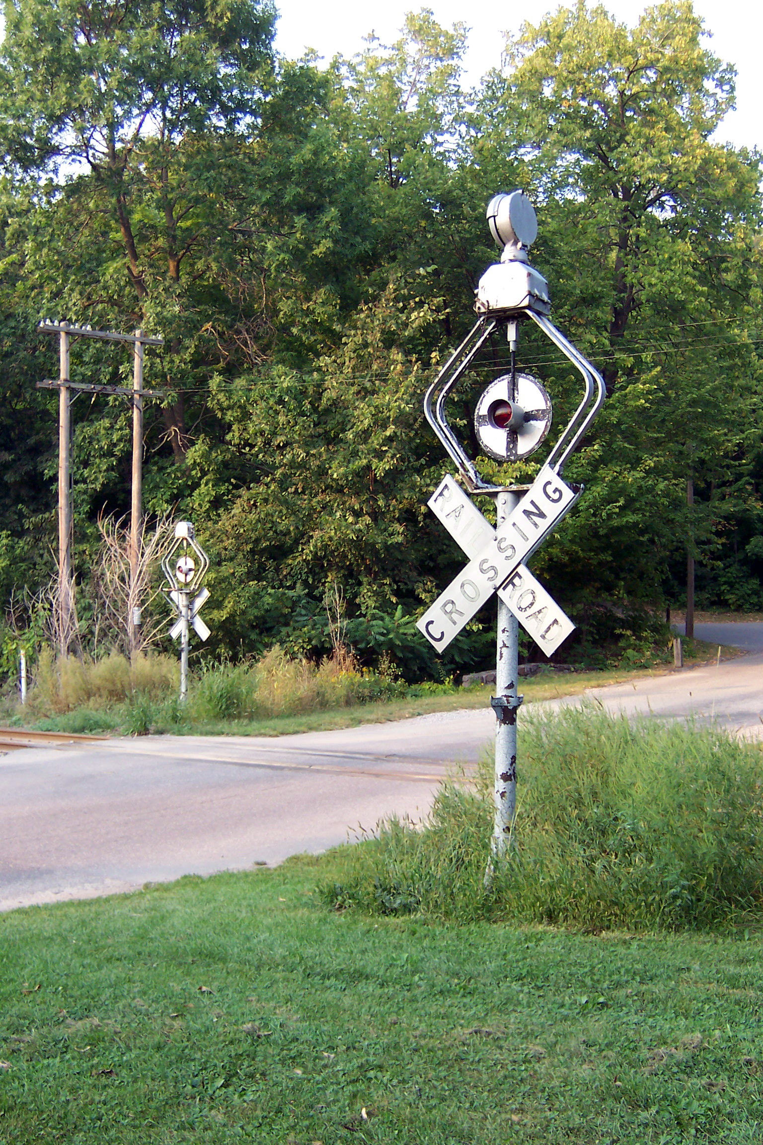 A pair of wigwag signals on the Wisconsin and Southern Railroad line near Devil's Lake, Wisconsin